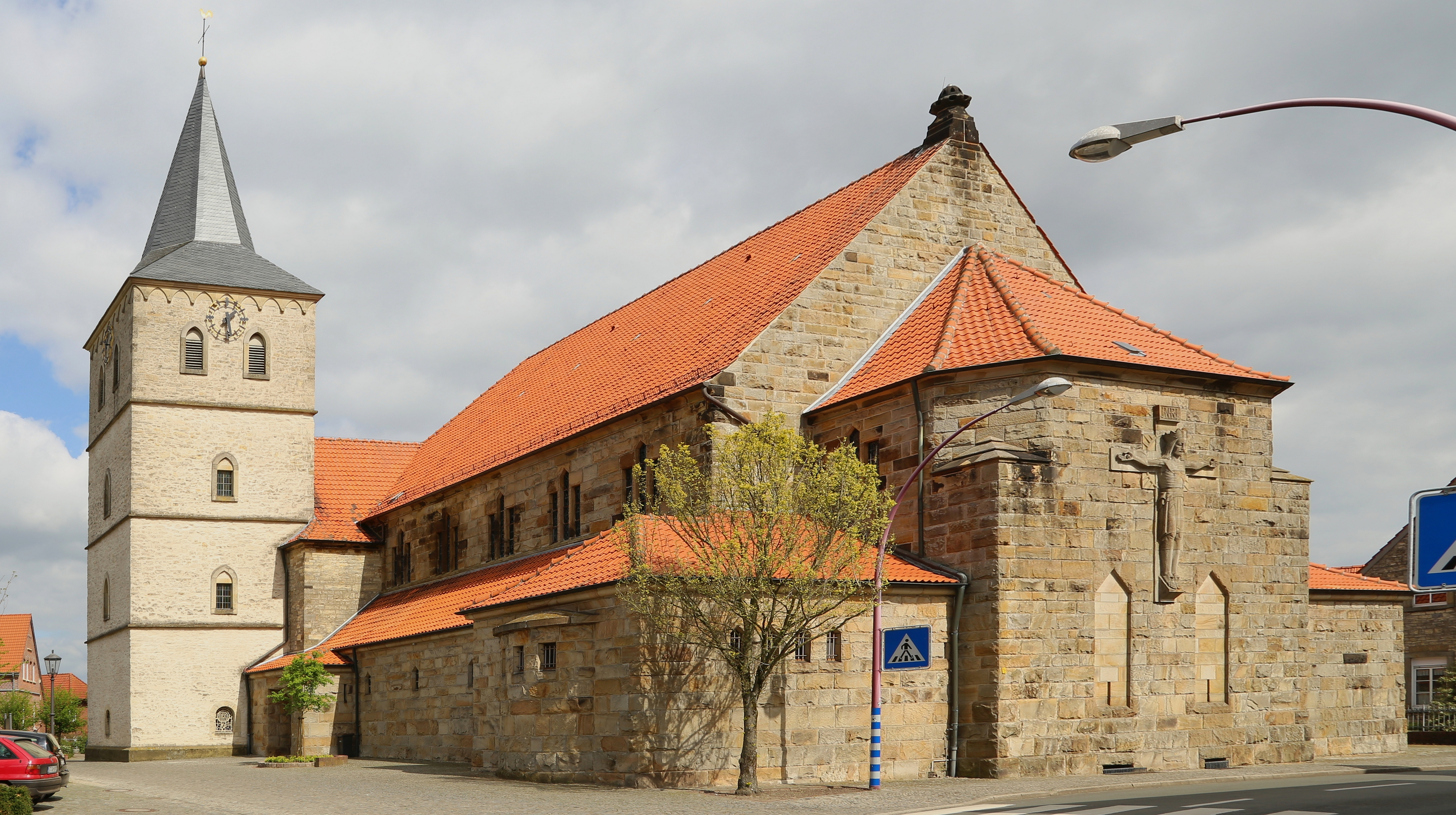 The Roman Catholic St Cosmas and Damian Church (St.-Cosmas-und-Damian-Kirche) in Horstmar-Leer, Kreis Steinfurt, North Rhine-Westphalia, Germany.